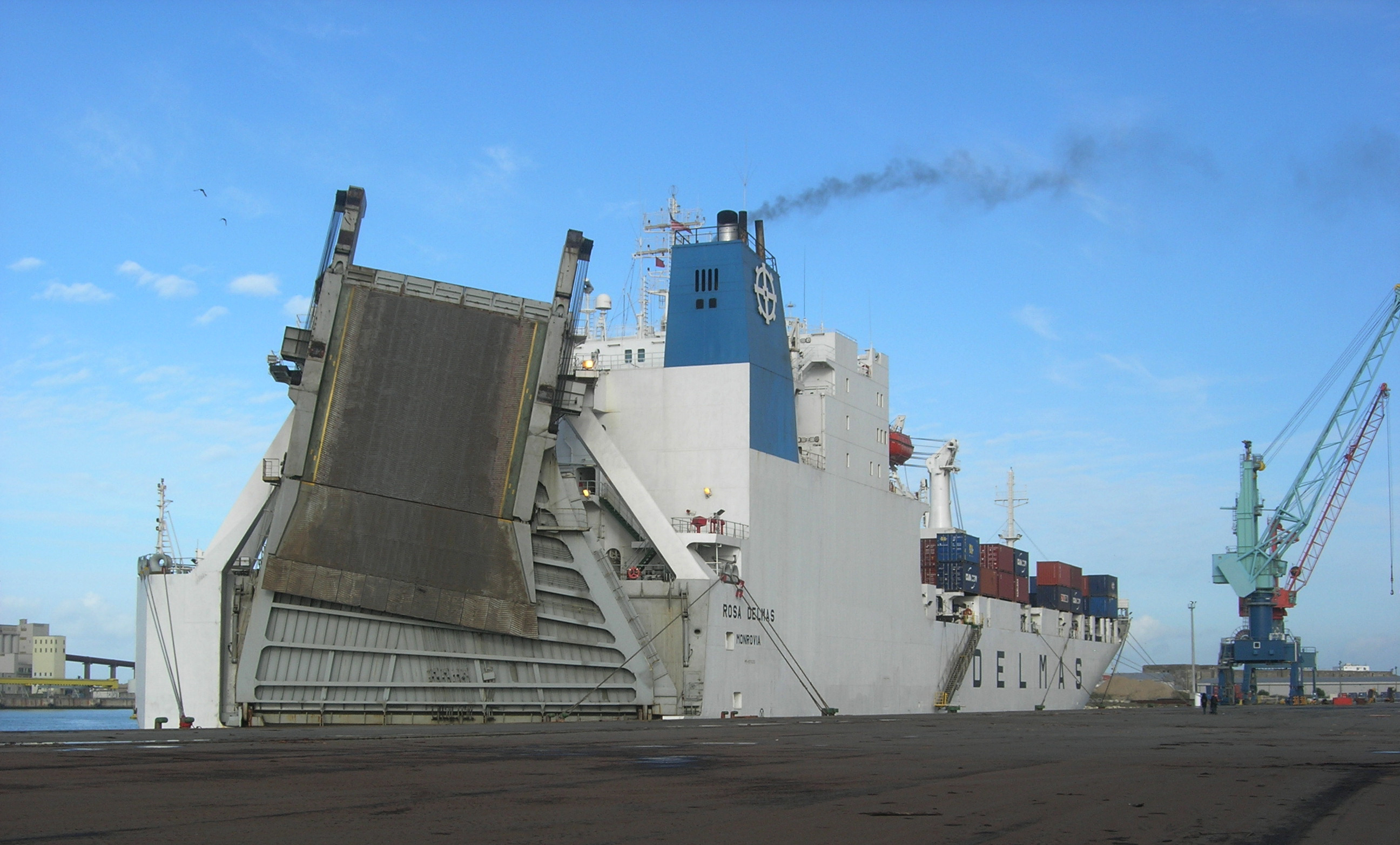 The MV Rosa Delmas (previously named Rosa Tucano) CMA-CGM's RoRo/Containership Ice Class. La Pallice harbour, La Rochelle, France